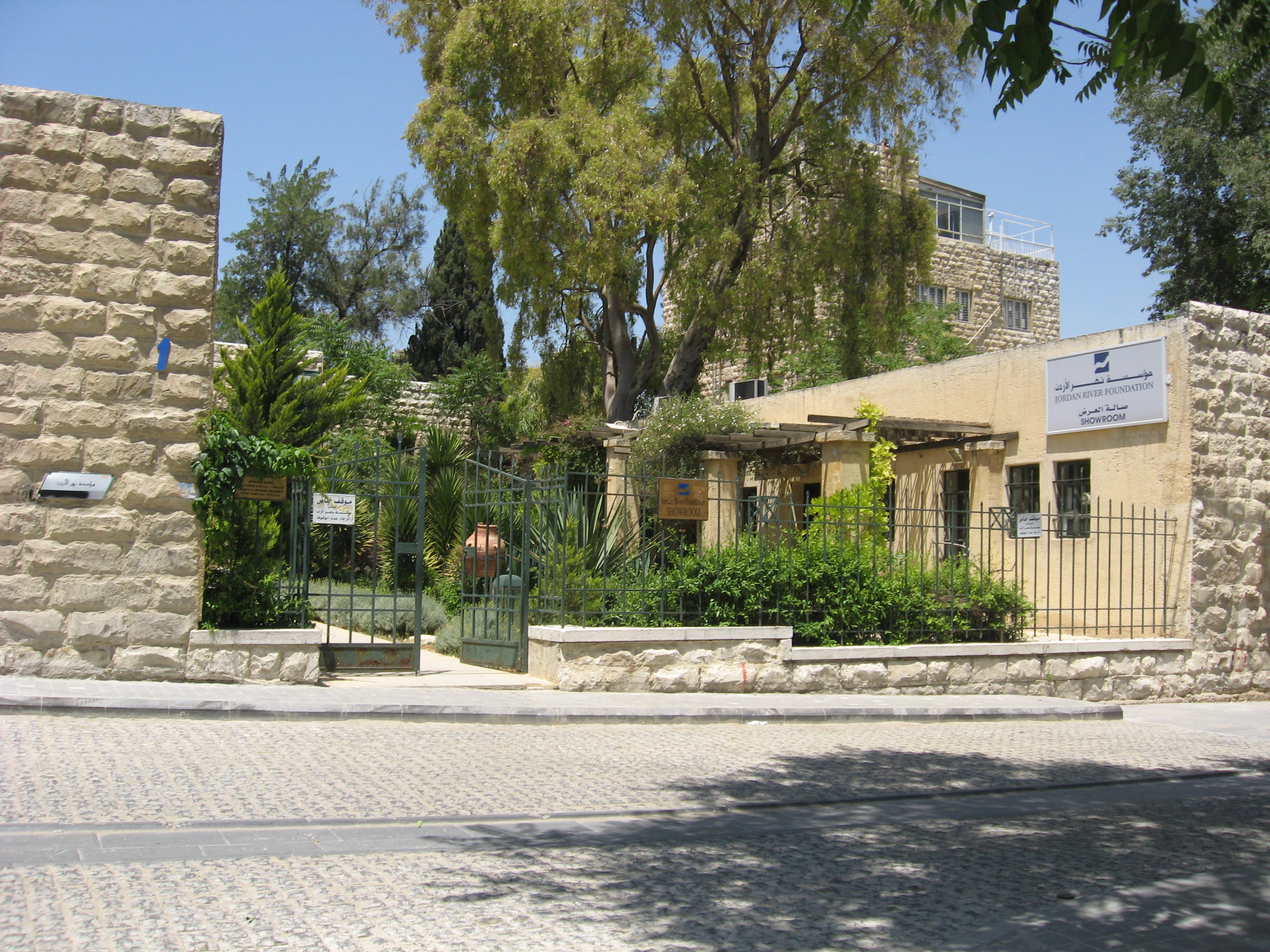 Self-made picture, 2008.